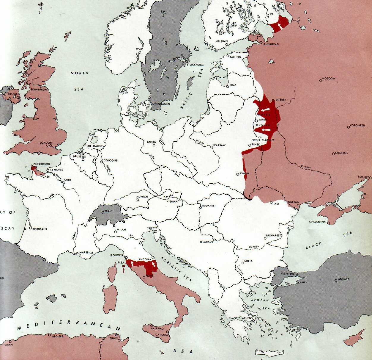 Map of the front against Germany: This map is taken from the source "Atlas of the World Battle Fronts in Semimonthly Phases to August 15th 1945: Supplement to The Biennial report of The Chief of Staff of the United States Army July 1, 1943 to June 30 1945 To the Secretary of War". (See Cover, Forward and Map details)